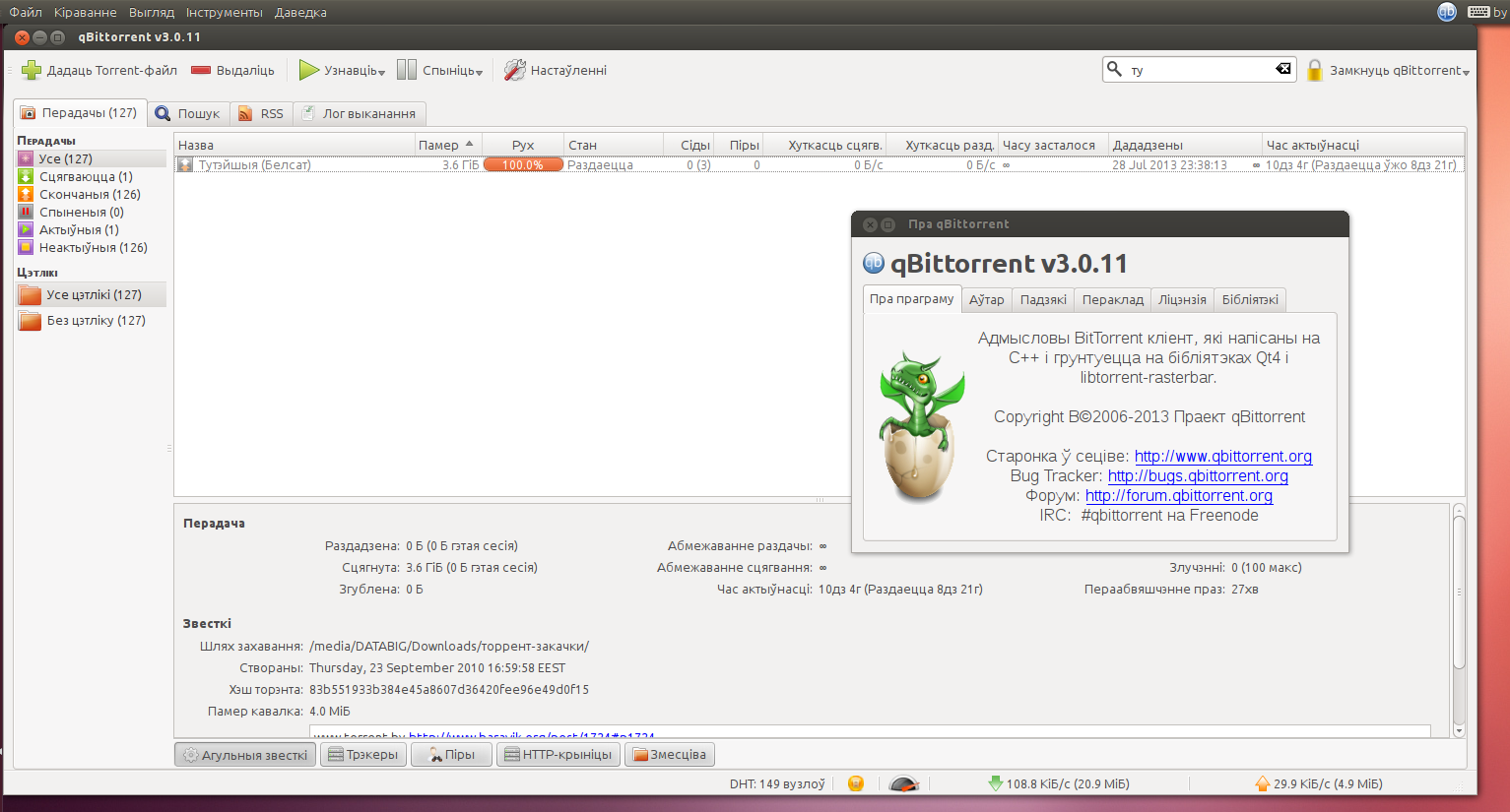 qBittorrent v3.0.11 with belarusian interface in Ubuntu